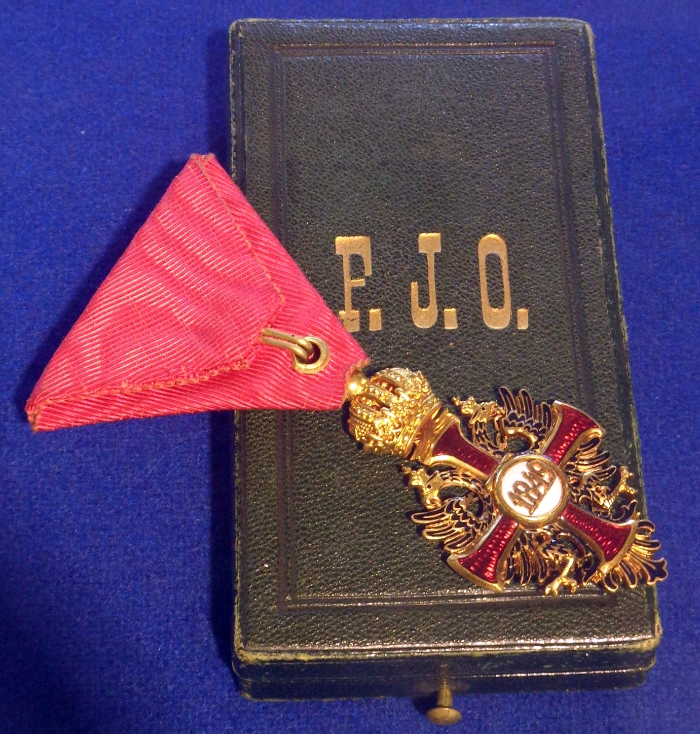 Imperial Order of Franz Joseph, Knight's badge reverse, 1905. Austro-Hungary. The exhibition of the Tallinn Museum of Orders of Knighthood, Estonia.